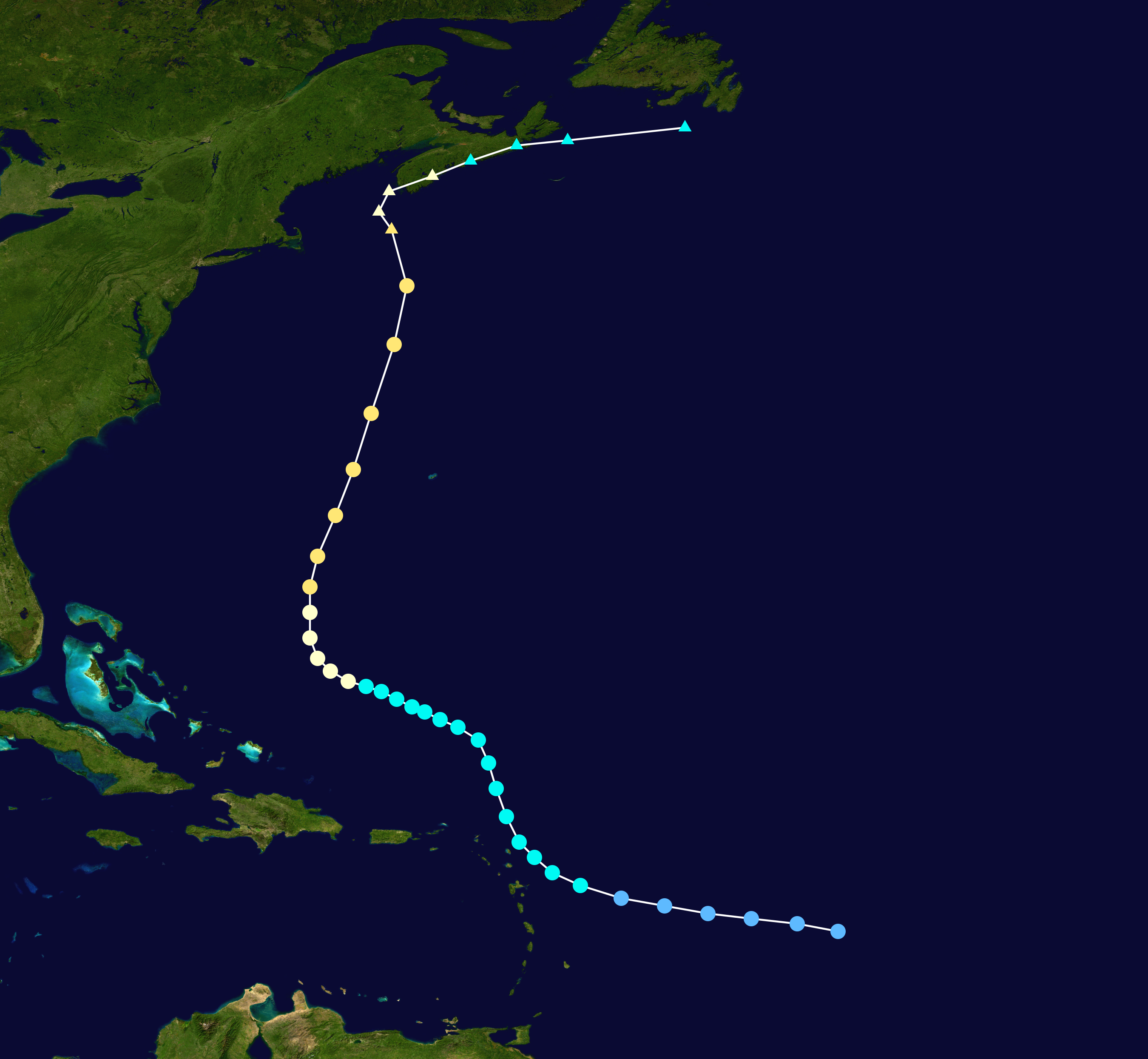 Track map of Hurricane Daisy of the 1962 Atlantic hurricane season. The points show the location of the storm at 6-hour intervals. The colour represents the storm's maximum sustained wind speeds as classified in the Saffir–Simpson scale (see below), and the shape of the data points represent the nature of the storm, according to the legend below. Saffir–Simpson scale Tropical depression≤38 mph≤62 km/h Category 3111–129 mph178–208 km/h Tropical storm39–73 mph63–118 km/h Category 4130–156 mph209–251 km/h Category 174–95 mph119–153 km/h Category 5≥157 mph≥252 km/h Category 296–110 mph154–177 km/h Unknown Storm type Tropical cyclone Subtropical cyclone Extratropical cyclone / Remnant low / Tropical disturbance / Monsoon depression